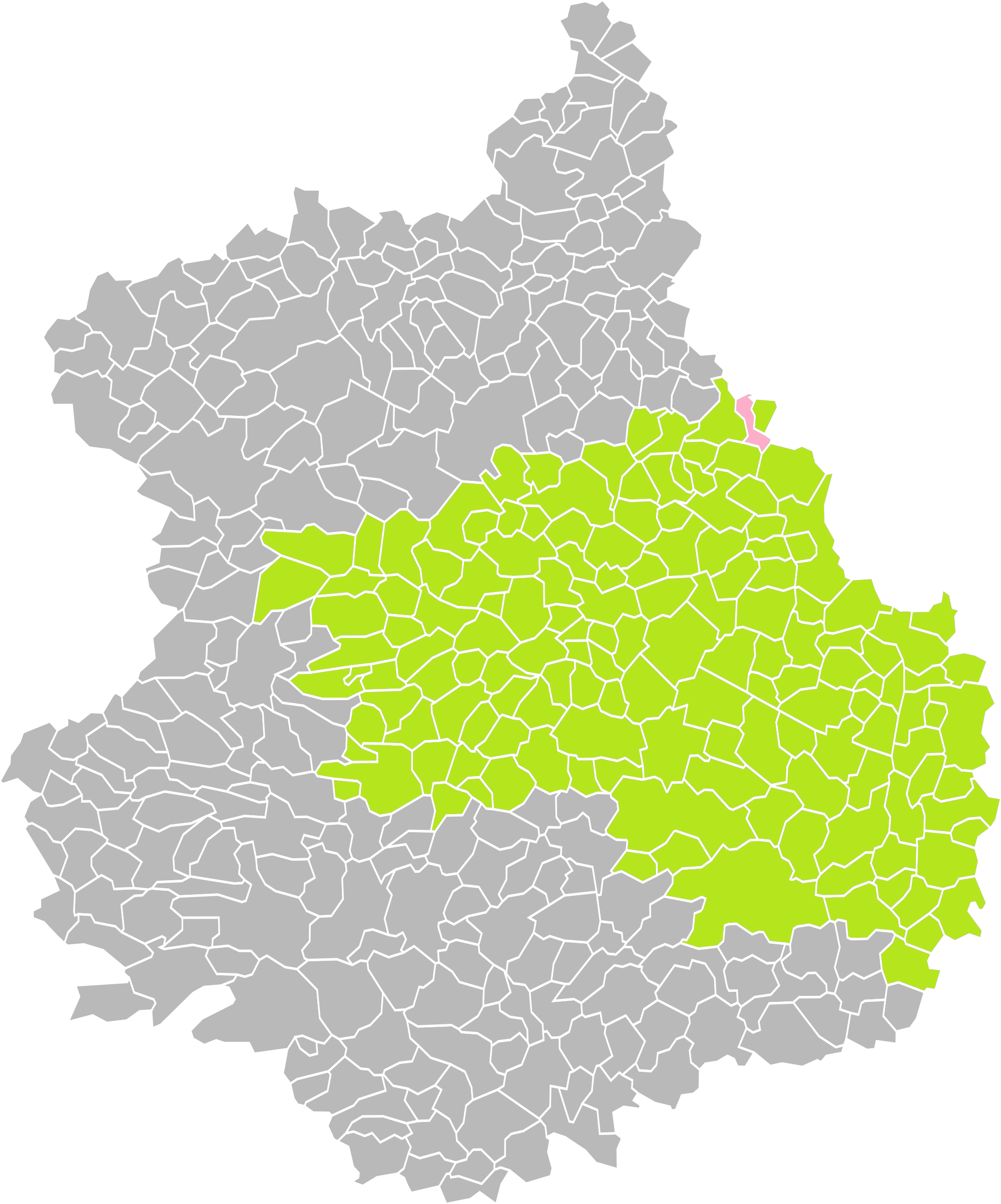 Location of the commune of Épernon in the arrondissement of Chartres (Eure-et-Loir)